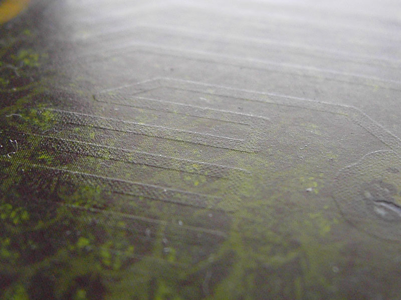 Touch and Play conducting paths on the board of parlor game King Arthur.